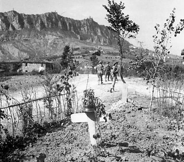 Battle of Monte Pulito aka Battle of San Marino